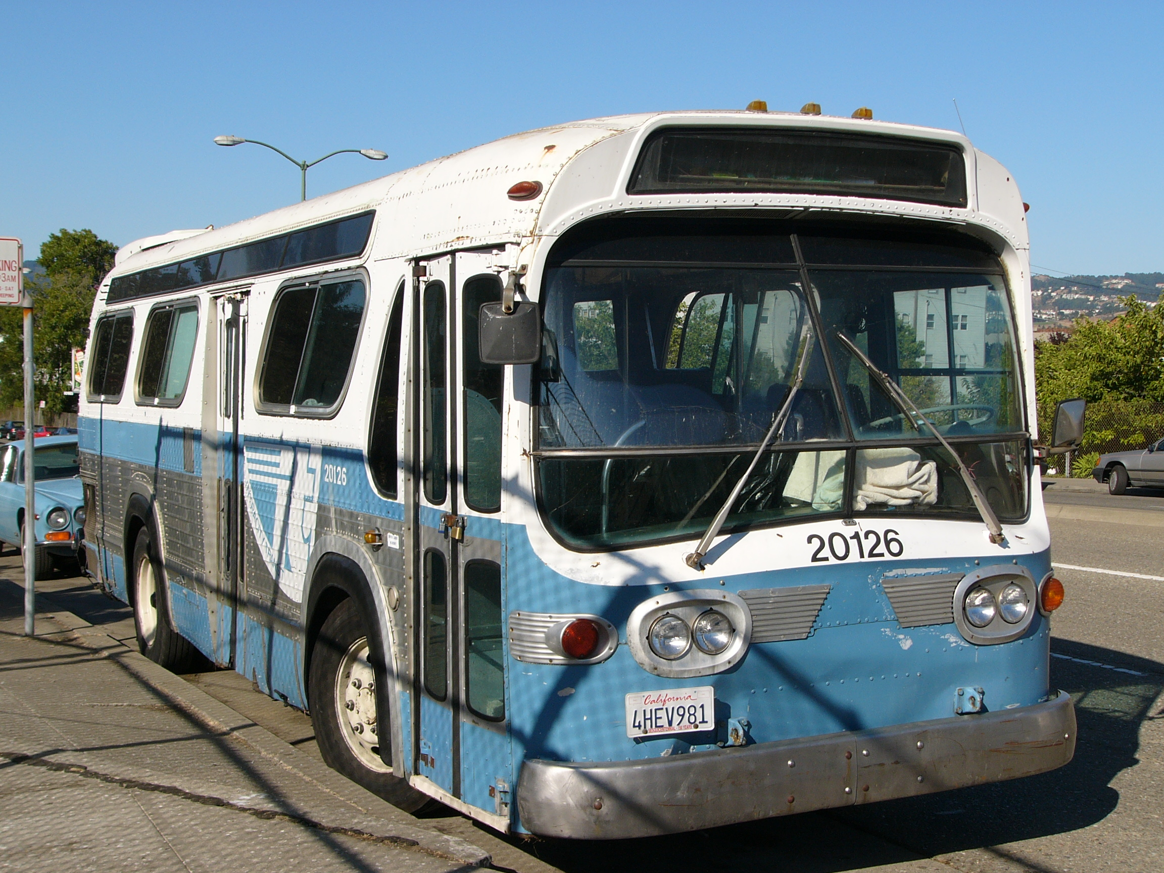 A 29-foot (9-metre) GM "New Look"-type bus in California.